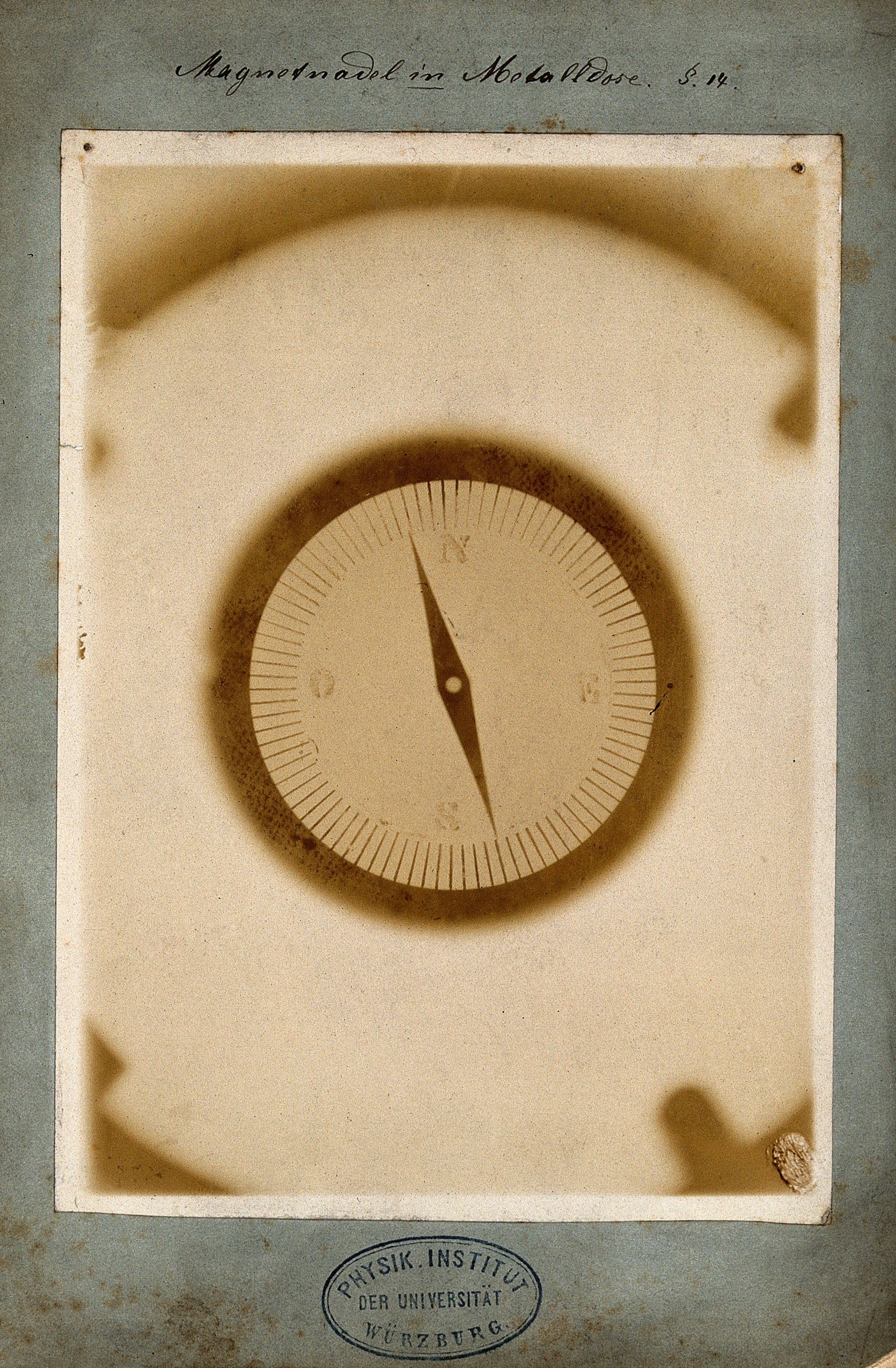 A compass whose magnetic needle is entirely surrounded by metal, viewed through x-ray. Photoprint from radiograph by W.K. von Röntgen, 1895. Iconographic Collections Keywords: Wilhelm Konrad von Röntgen